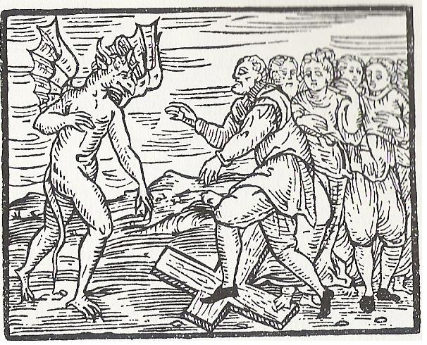 Wood Engraving 1 from the Compendium Maleficarum